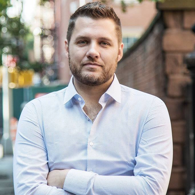 Headshot of Mark Manson in 2018